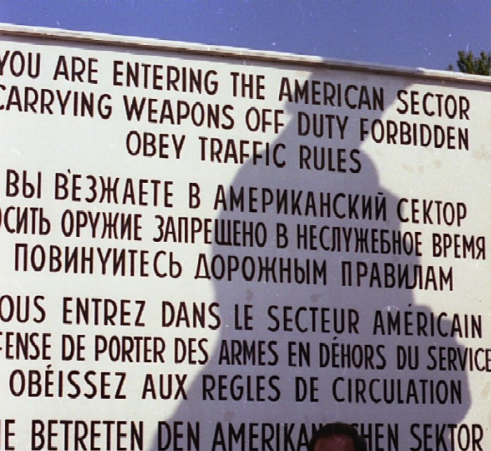 The famous "You are entering the American sector" sign, photographed in Berlin at the Glienicke Bridge (where spies were exchanged)